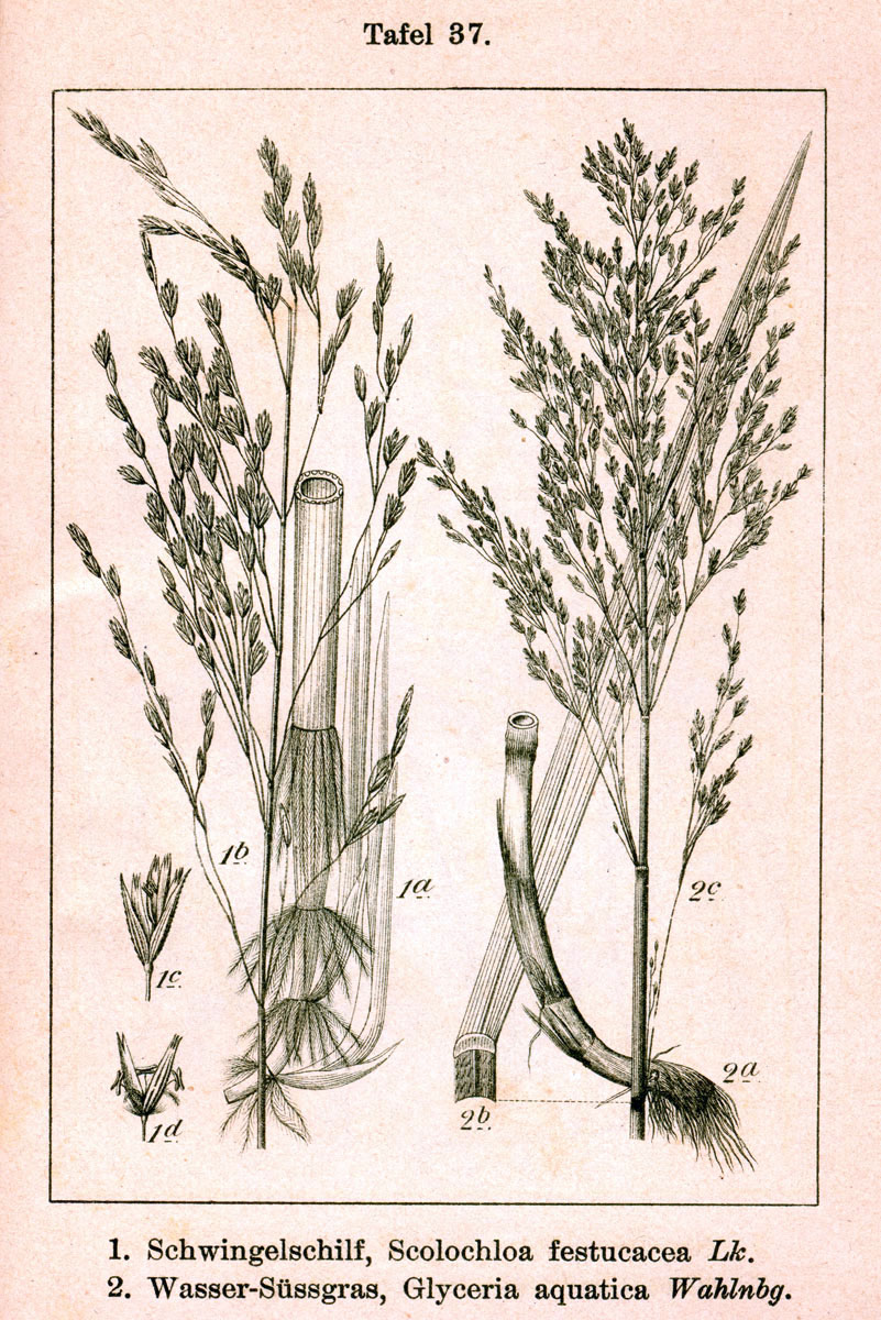 1. Scolochloa festucacea (Willd.) Link 2. Glyceria maxima (Hartm.) Holmb., syn. Glyceria aquatica (L.) Wahlb. Original Description 1. Schwingelschilf, Scolochloa festucacea Link 2. Wasser-Süssgras, Glyceria aquatica Wahlb.